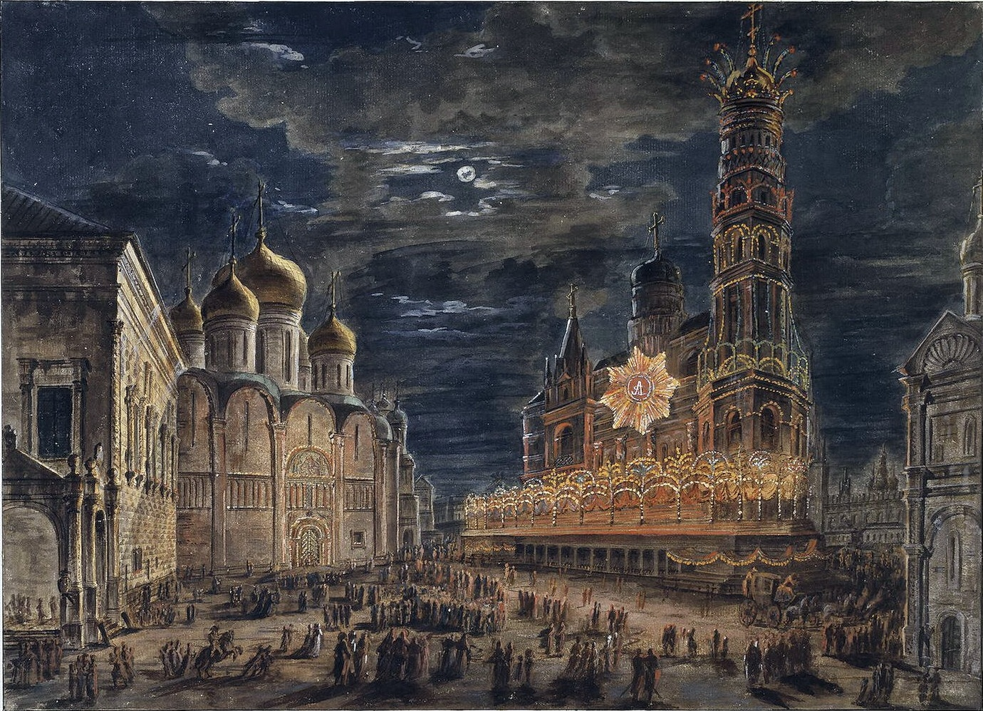 Иллюминация в честь коронации Александра I